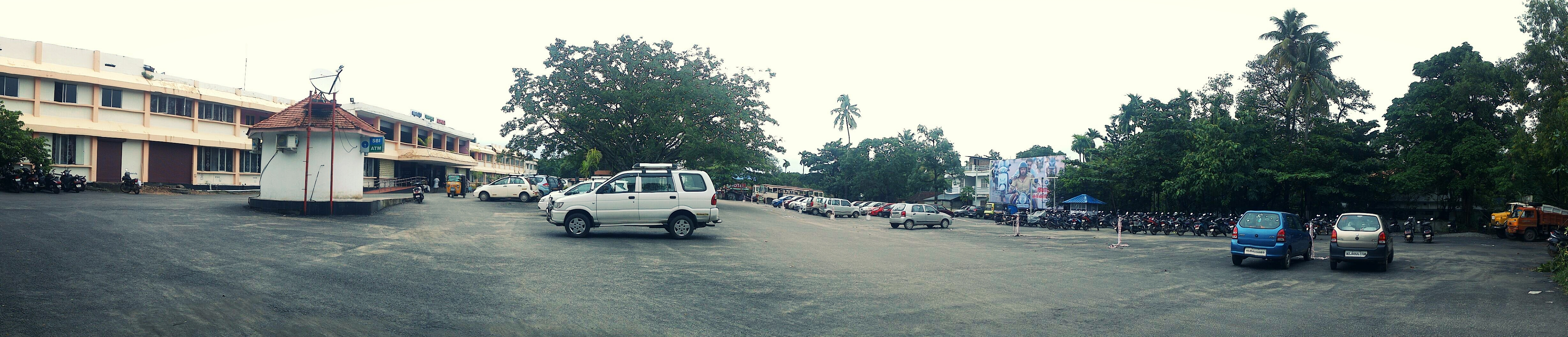 This is a panoramic view of Alleppey railway station